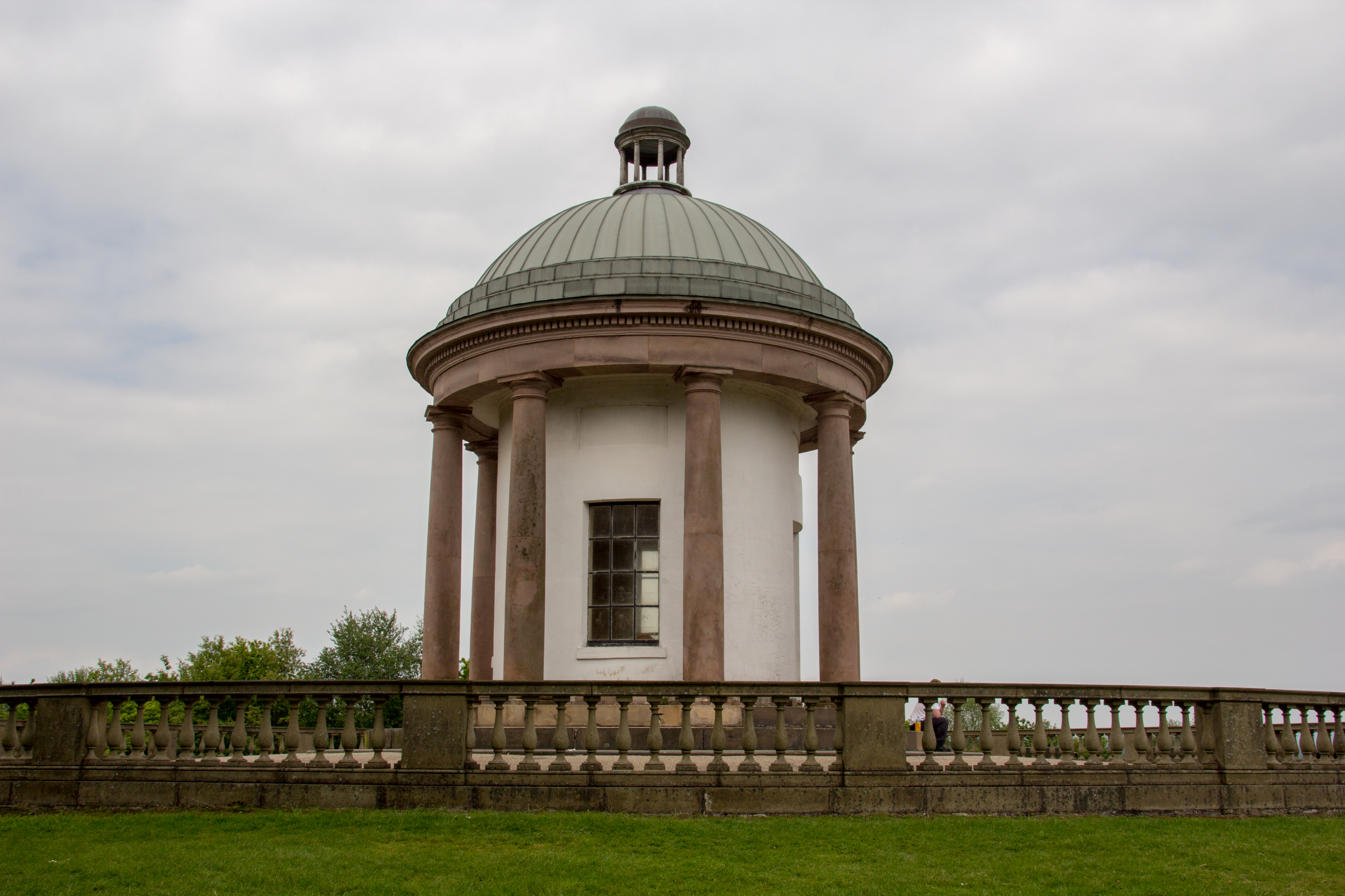 The Temple, Heaton Park, Manchester, United Kingdom